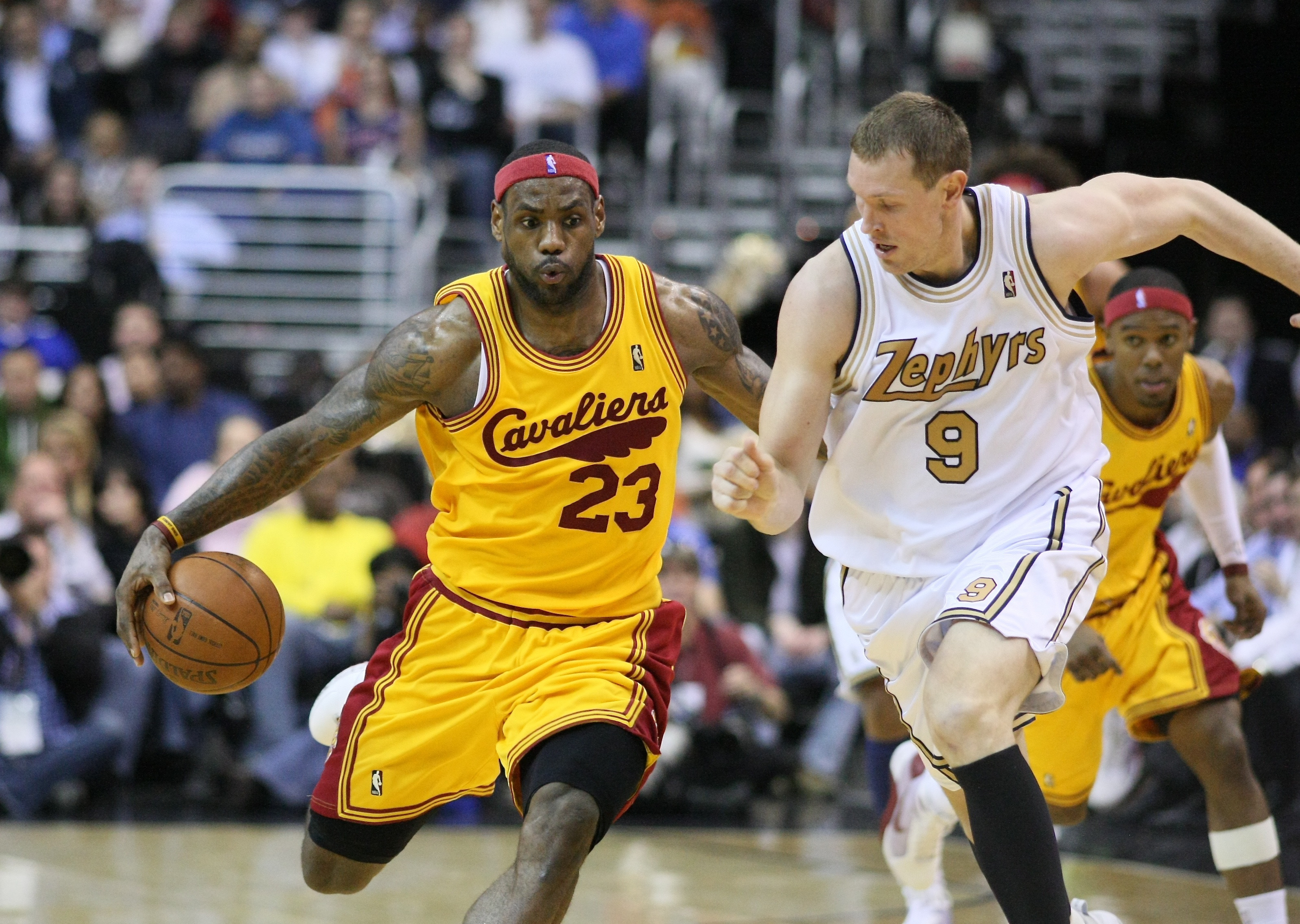 Darius Songaila tries to stop LeBron James.